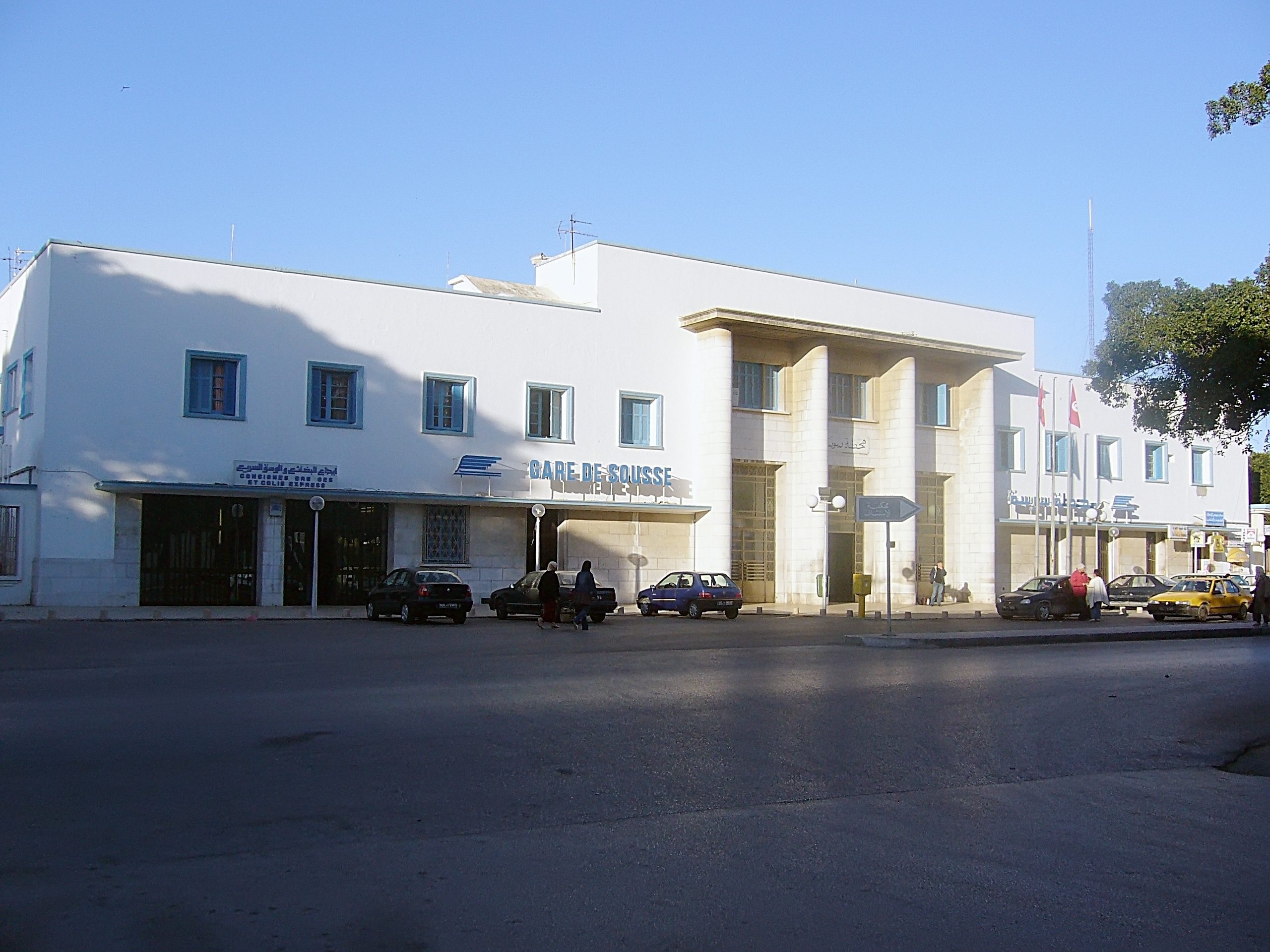 train station of Sousse, Tunisia